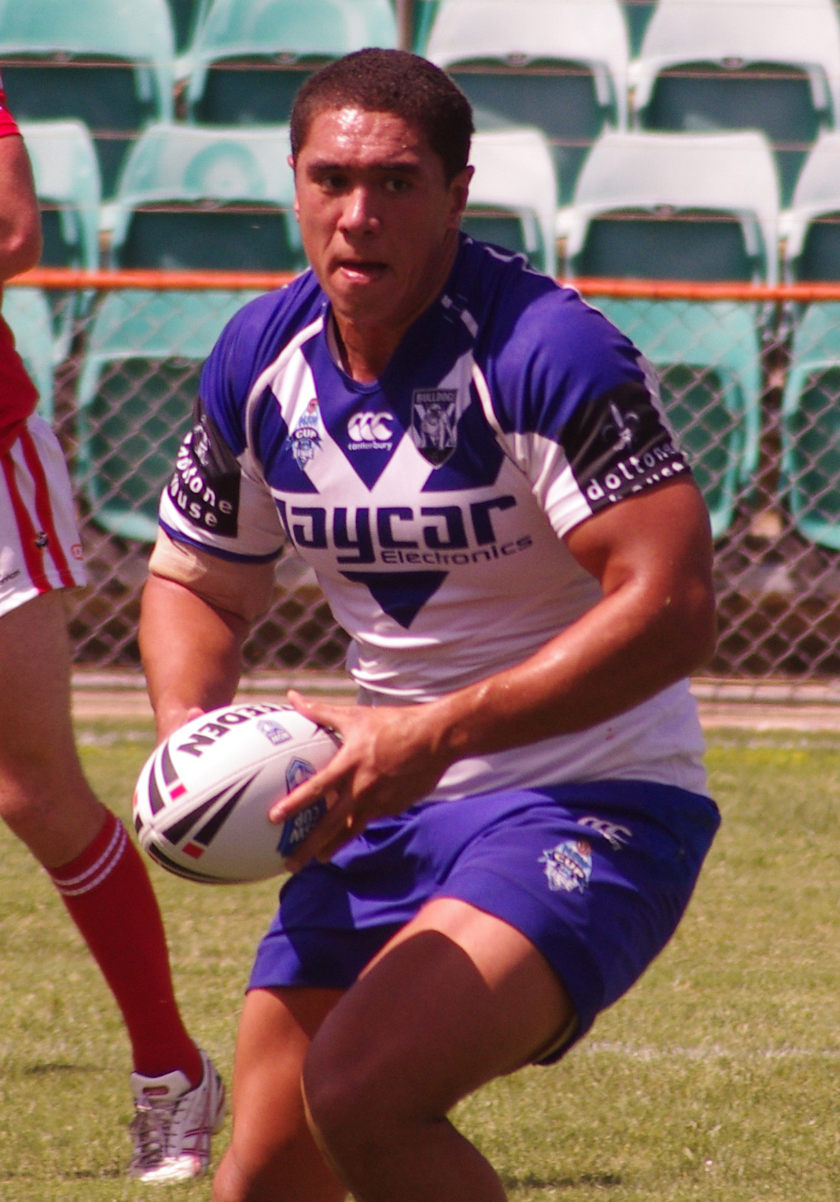 Leilani latu